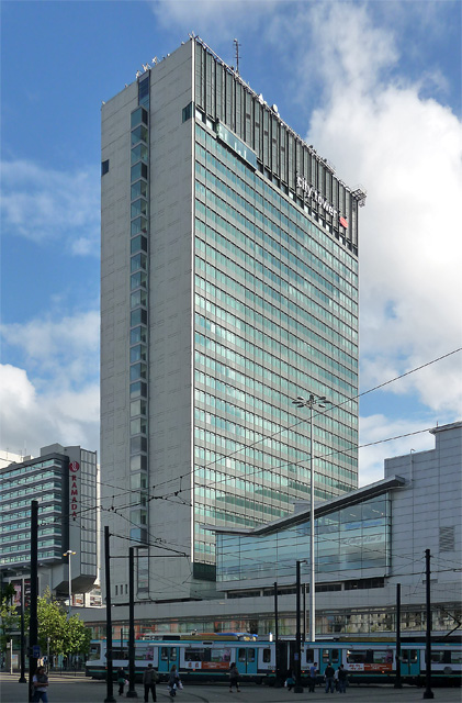 Now given the banal title, City Tower, having been redeveloped by Leslie Jones Architects for ubiquitous local property developers Bruntwood. Very prominent on the city's skyline and impressive by virtue of its sheer size. The narrow end facing the street is decorated with "relief designs derived from circuit boards". The tower is one of three buildings comprising the massive Piccadilly Plaza development by Covell, Matthews & Partners, 1959-65. The three are linked by a podium.